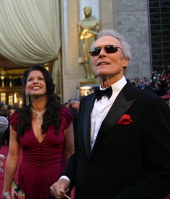 Army.mil Former Soldier and award nominee Clint Eastwood expresses his thanks to the men and women of the armed forces before the 79th Academy Awards at the Kodak Theatre in Los Angeles, Feb. 25. Other celebrities took the time to thank the Soldiers and pay tribute to their service and sacrifices.